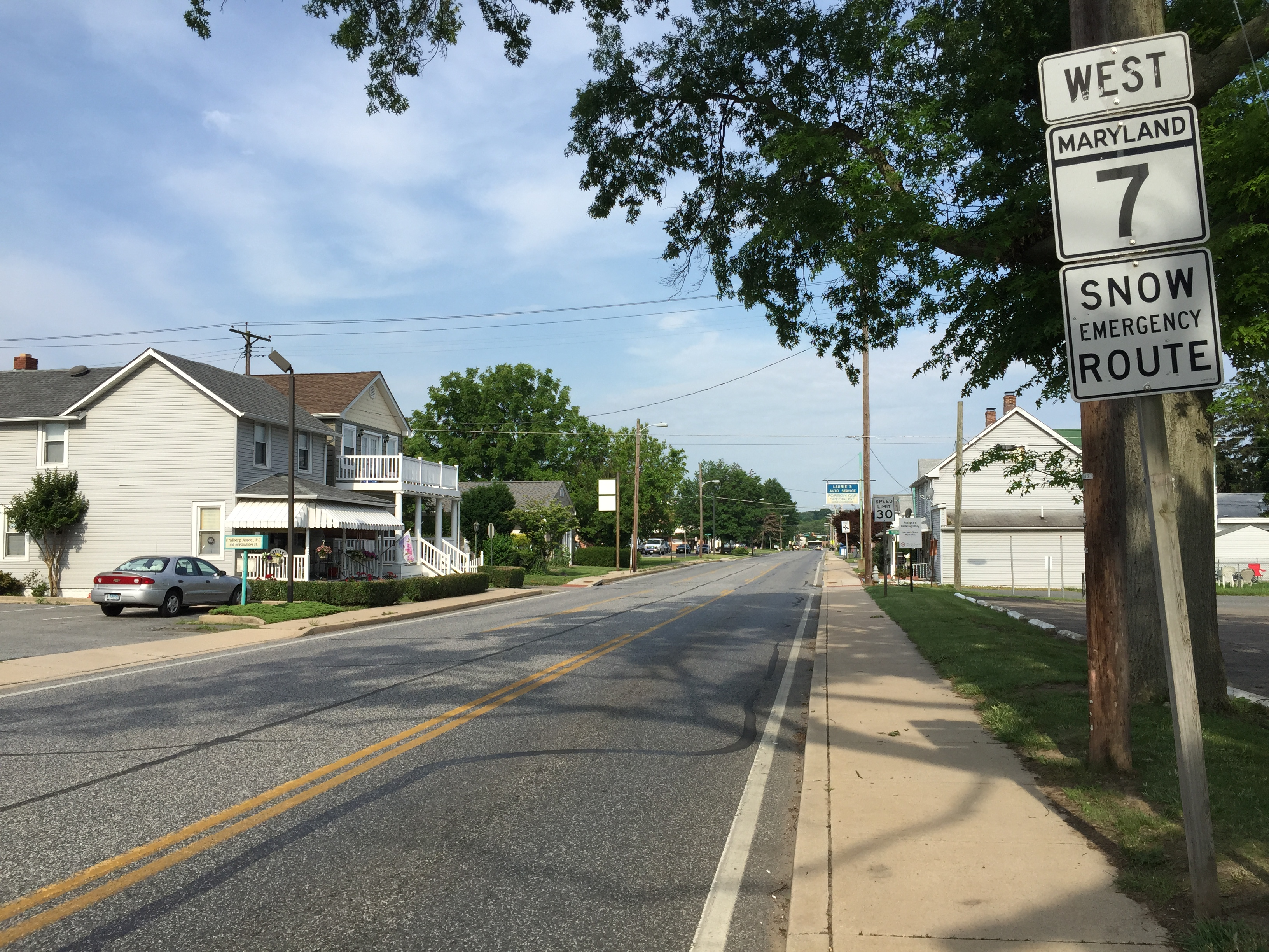 View west along Maryland Route 7 (Revolution Street) between Union Avenue and Freedom Lane in Havre de Grace, Harford County, Maryland